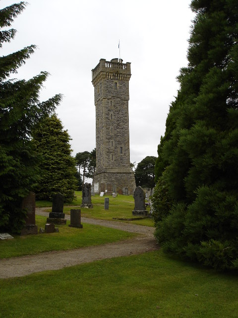 Major-General Sir Hector Archibald MacDonald Memorial in Dingwall. The son of a crofter who became the commanding officer of the Highland Brigade during the Boer War, known as "Fighting Mac". The memorial was completed in 1907, and is 100 ft high. A very prominent feature in Dingwall.